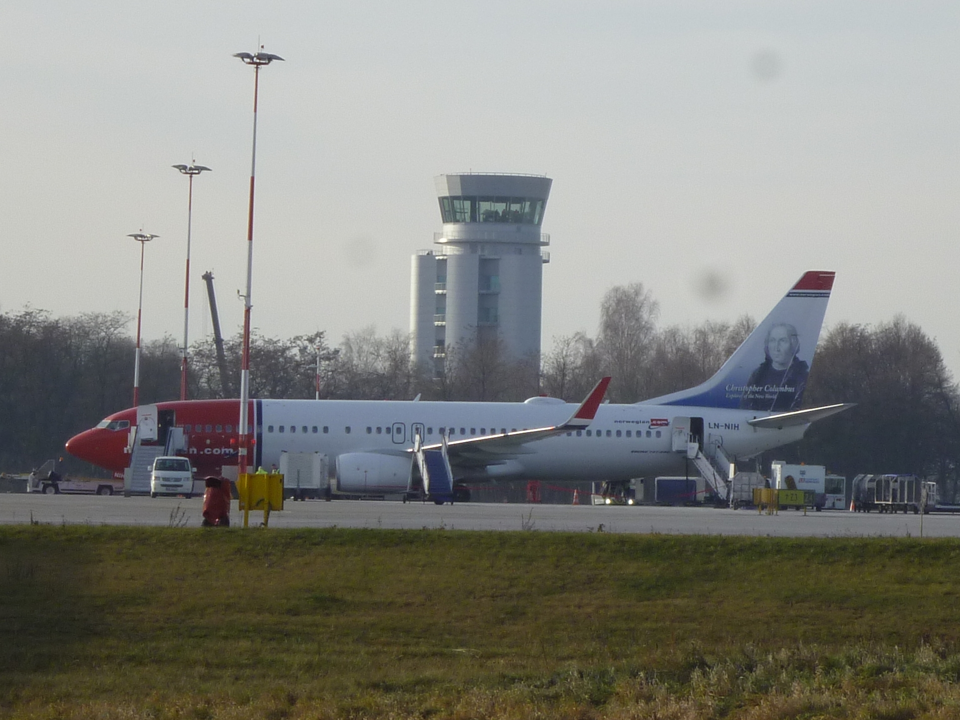 International Airport Kraków-Balice, air traffic control in Krakow airport, Poland , airplane Boeing 737-8JP, Norwegian Air .